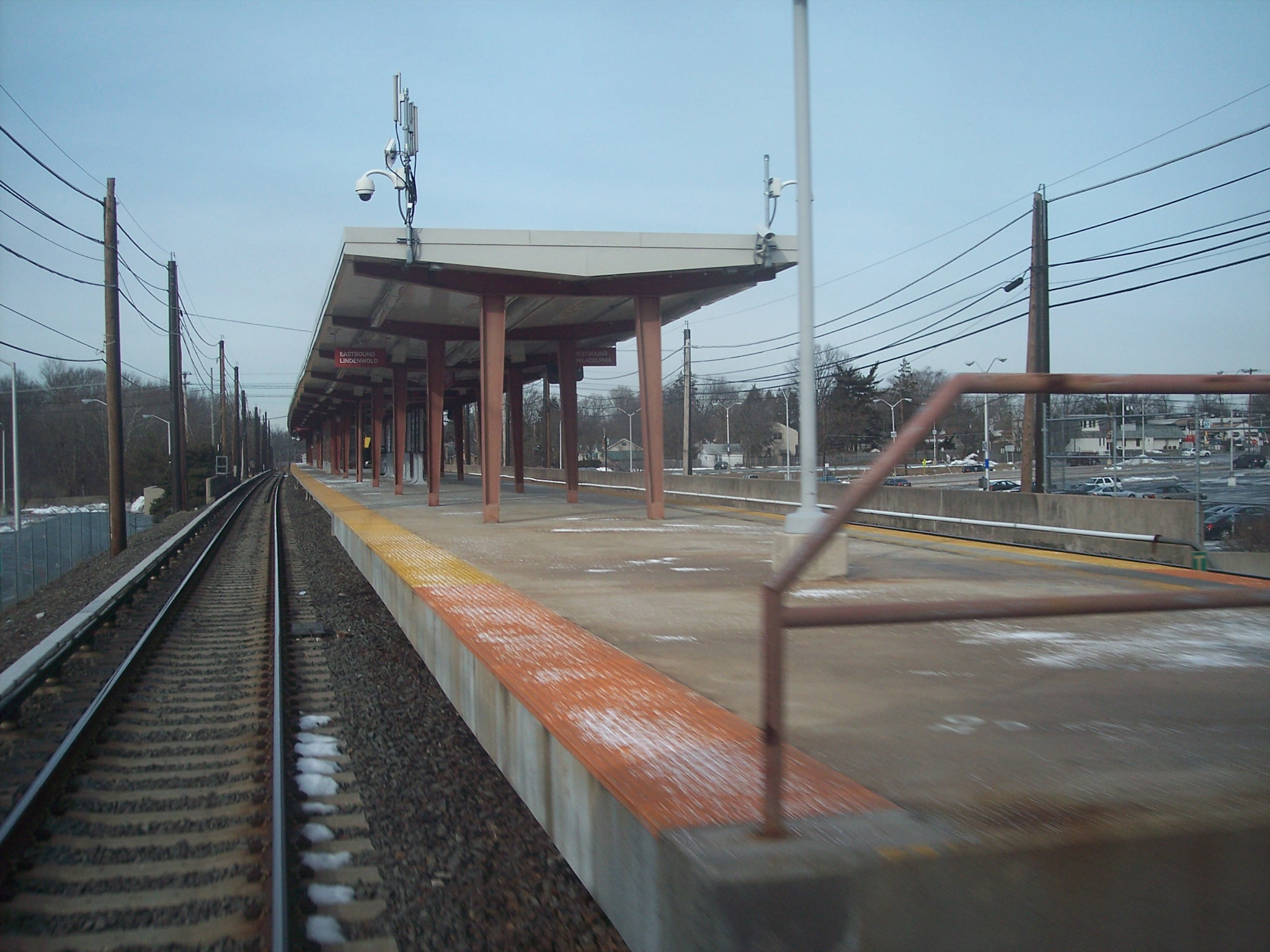 Ashland PATCO station seen from a moving train in January 2011